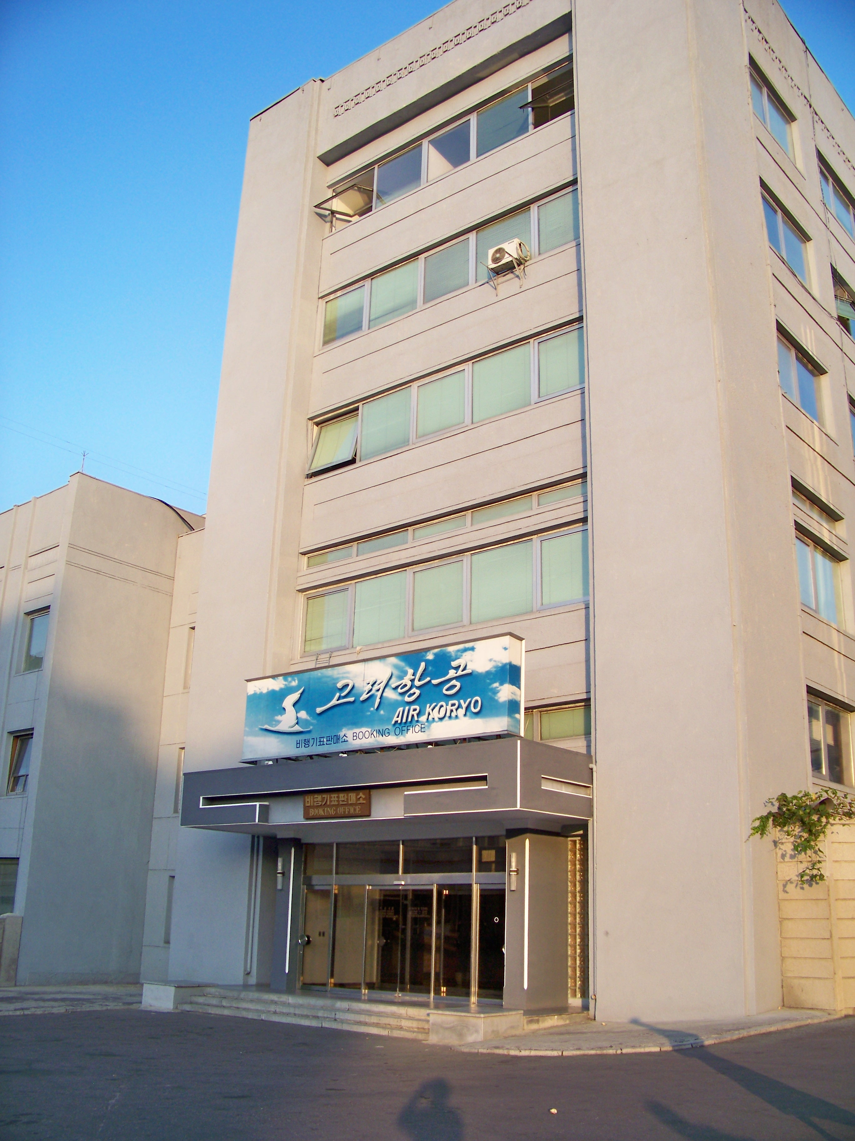 Air Koryo ticketing offices in Central District, Pyongyang, North Korea